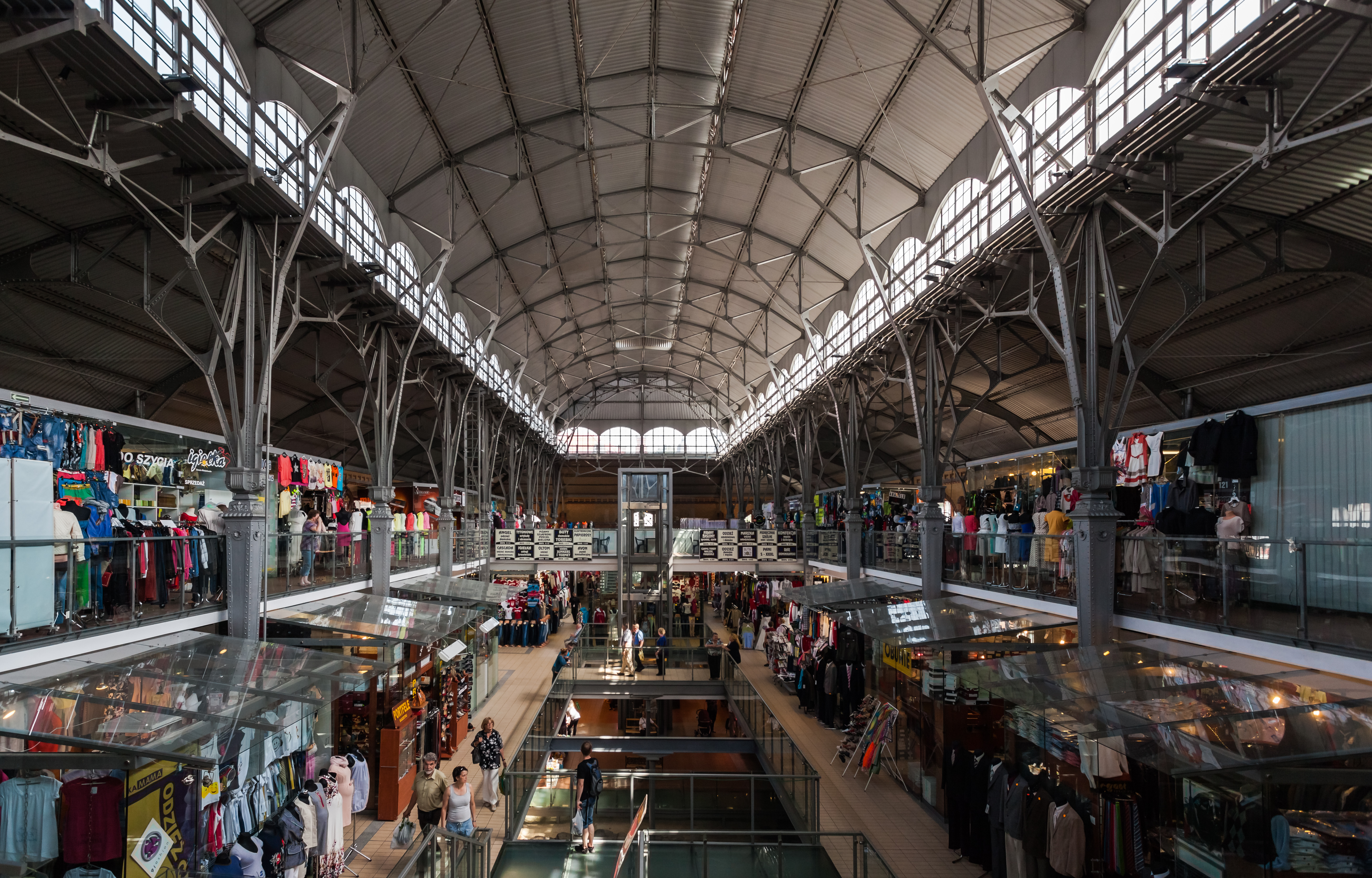 Market Hall, Gdansk, Poland